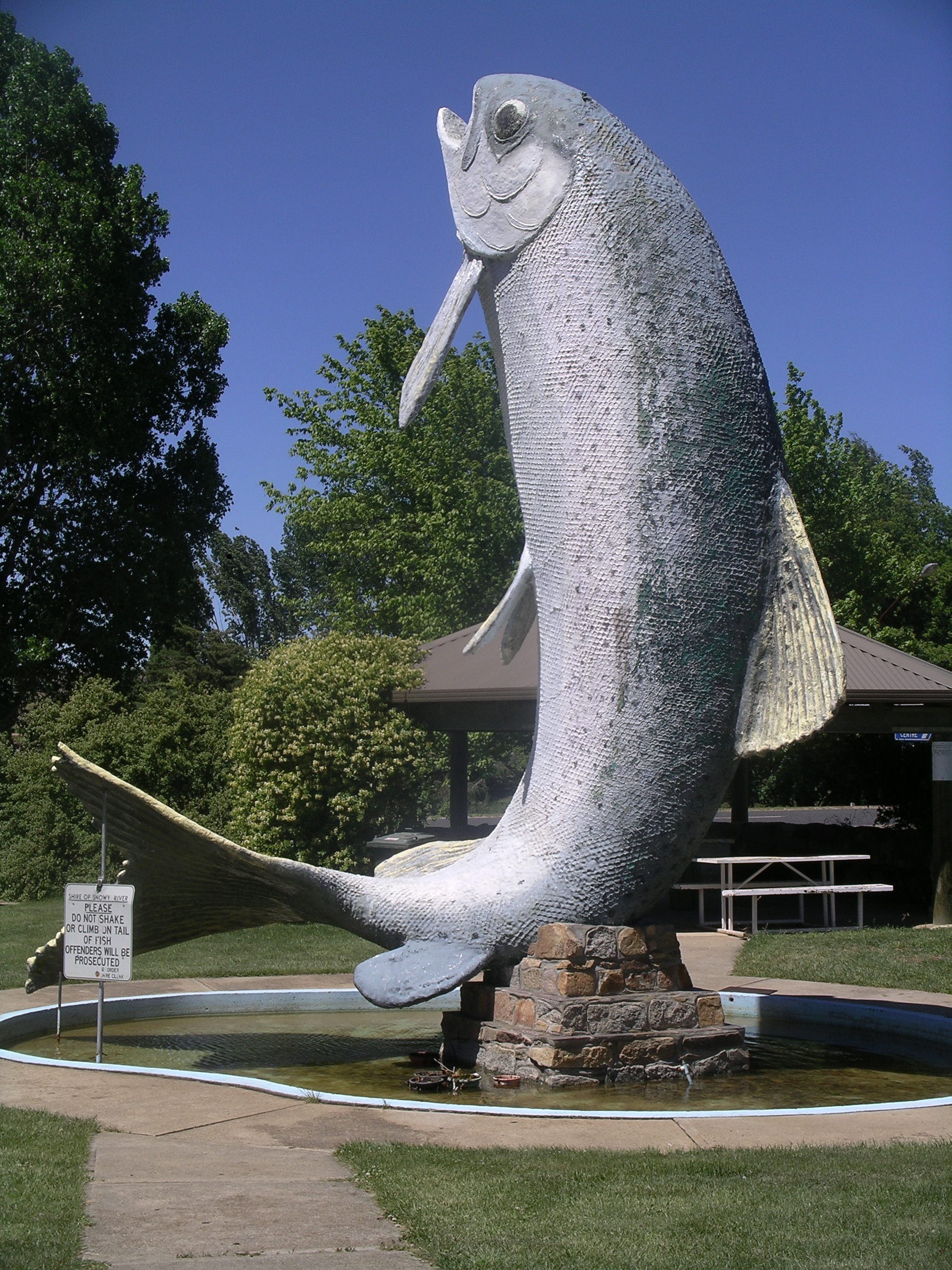 The Big Trout in Adaminaby, New South Wales, Australia.